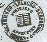 Bulgarian church seal in Nevrokop, Drama, Melnik